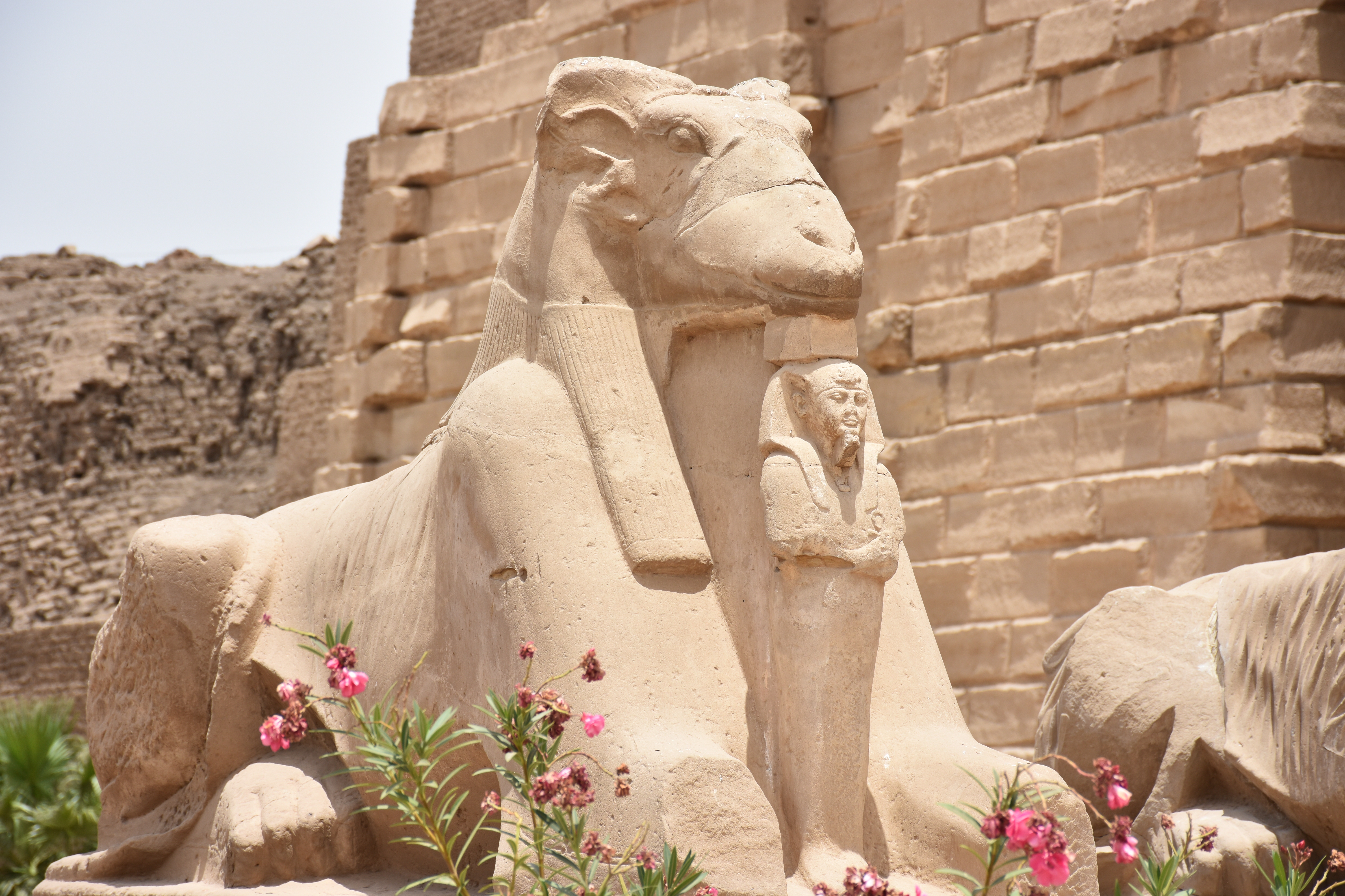 Statue of Amun ram at Karnak Temple in Luxor, Egypt